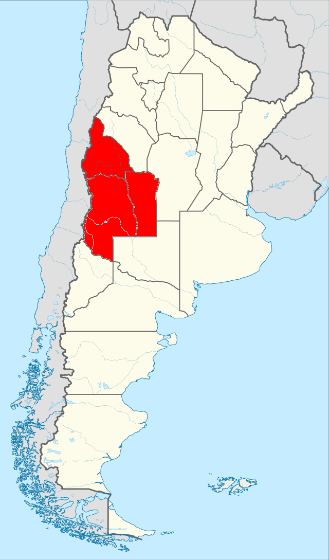 historical Cuyo province inside Argentina. This map violates legal regulations Argentina: Ley de la Carta [Law No. 22963].